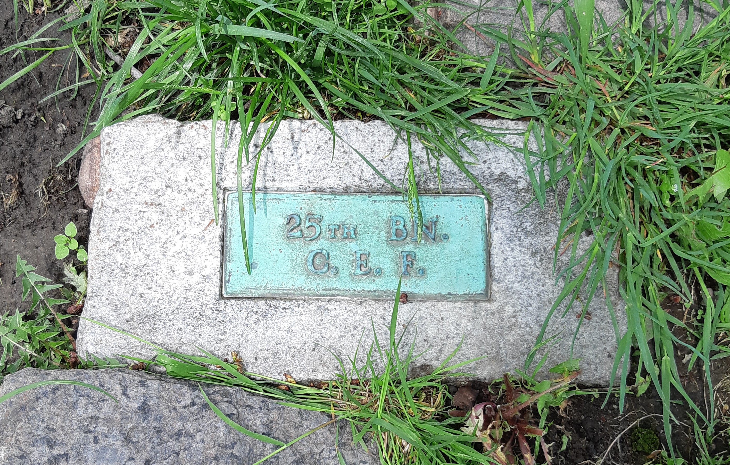 Each tree at Coronation Park is dedicated to a military division.